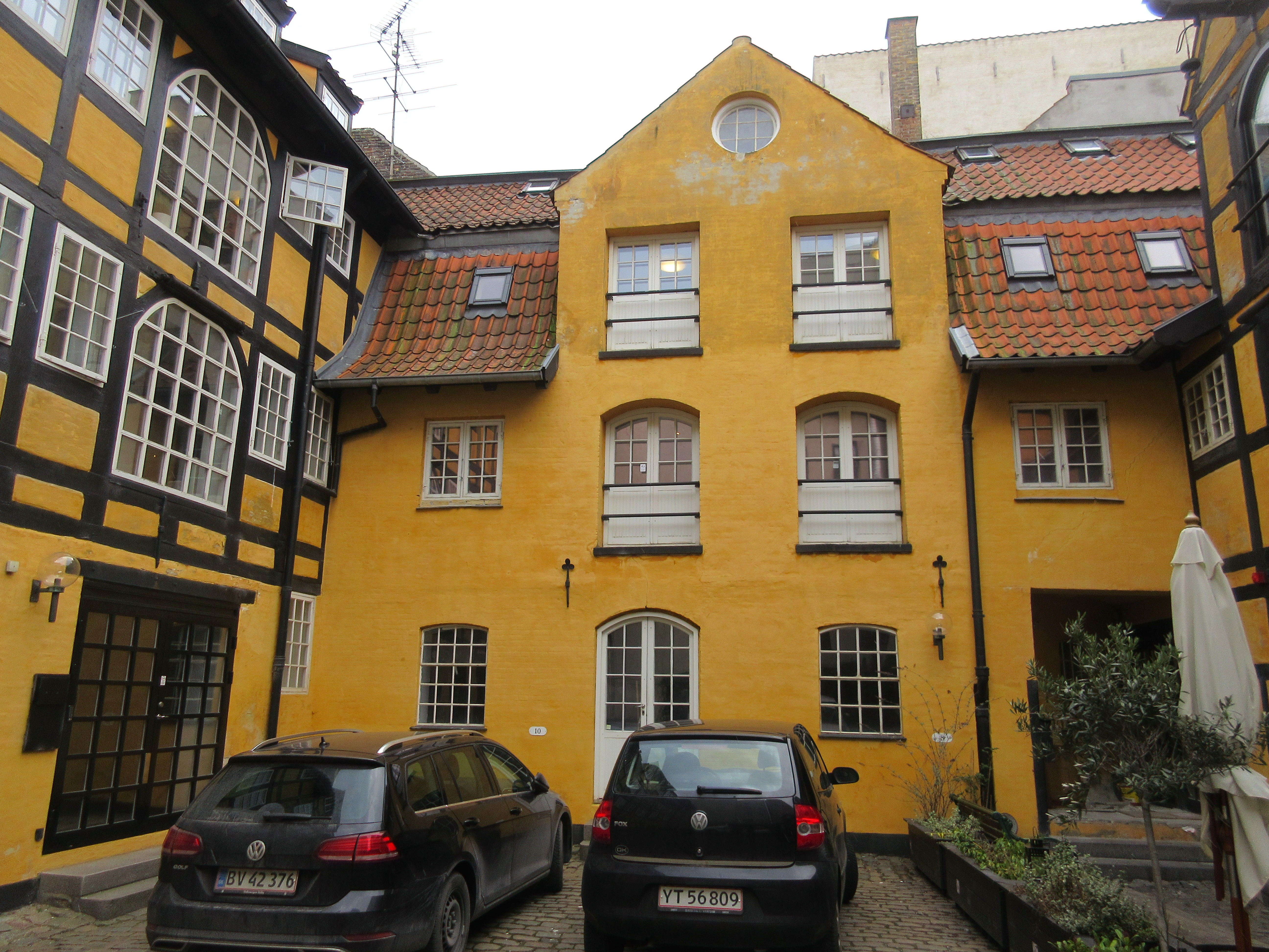 Myhavn 63 in Copenhagen, Denmark